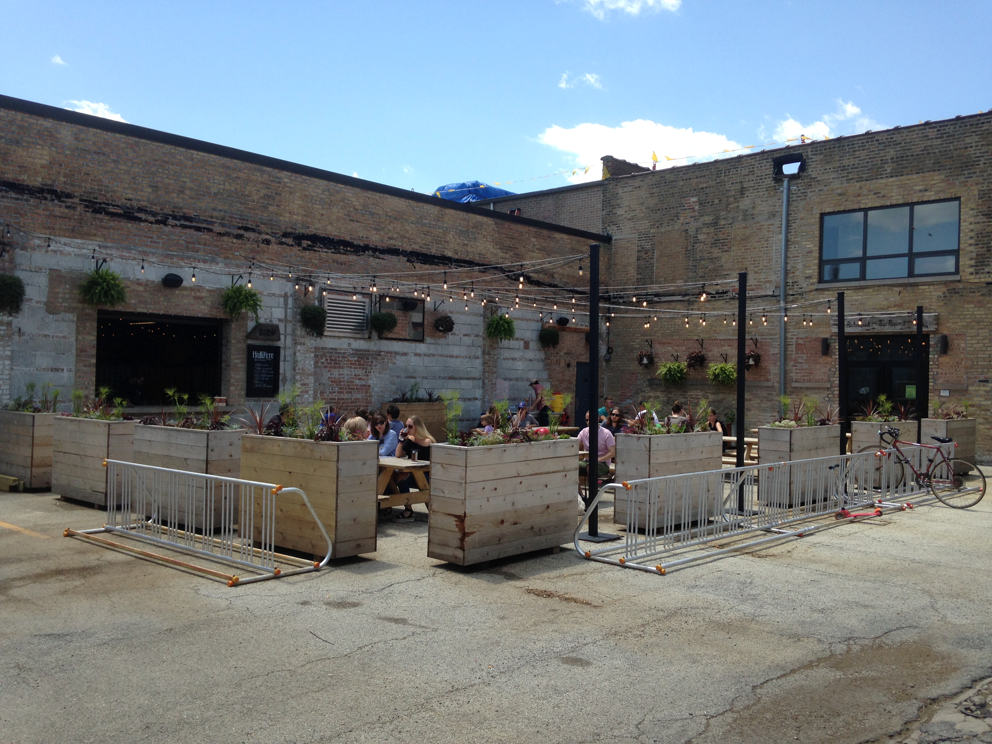 The patio of the the Half Acre brewpub on Balmoral Avenue in Chicago, Illinois, U.S., in 2018.